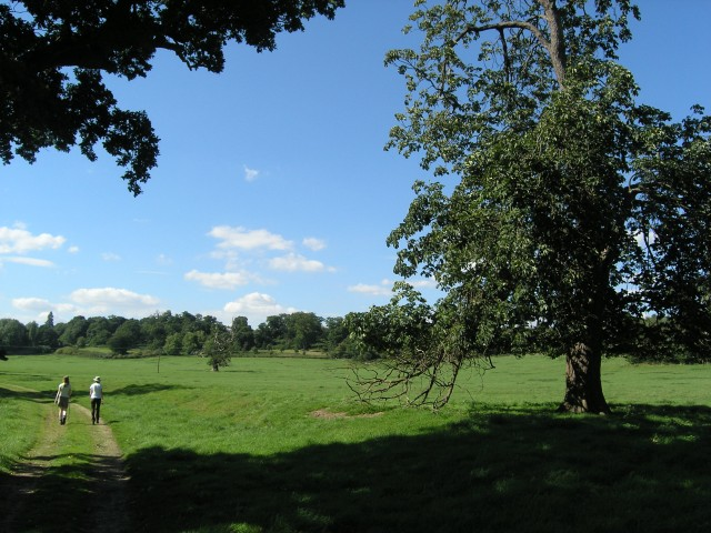 Tendring Hall Park